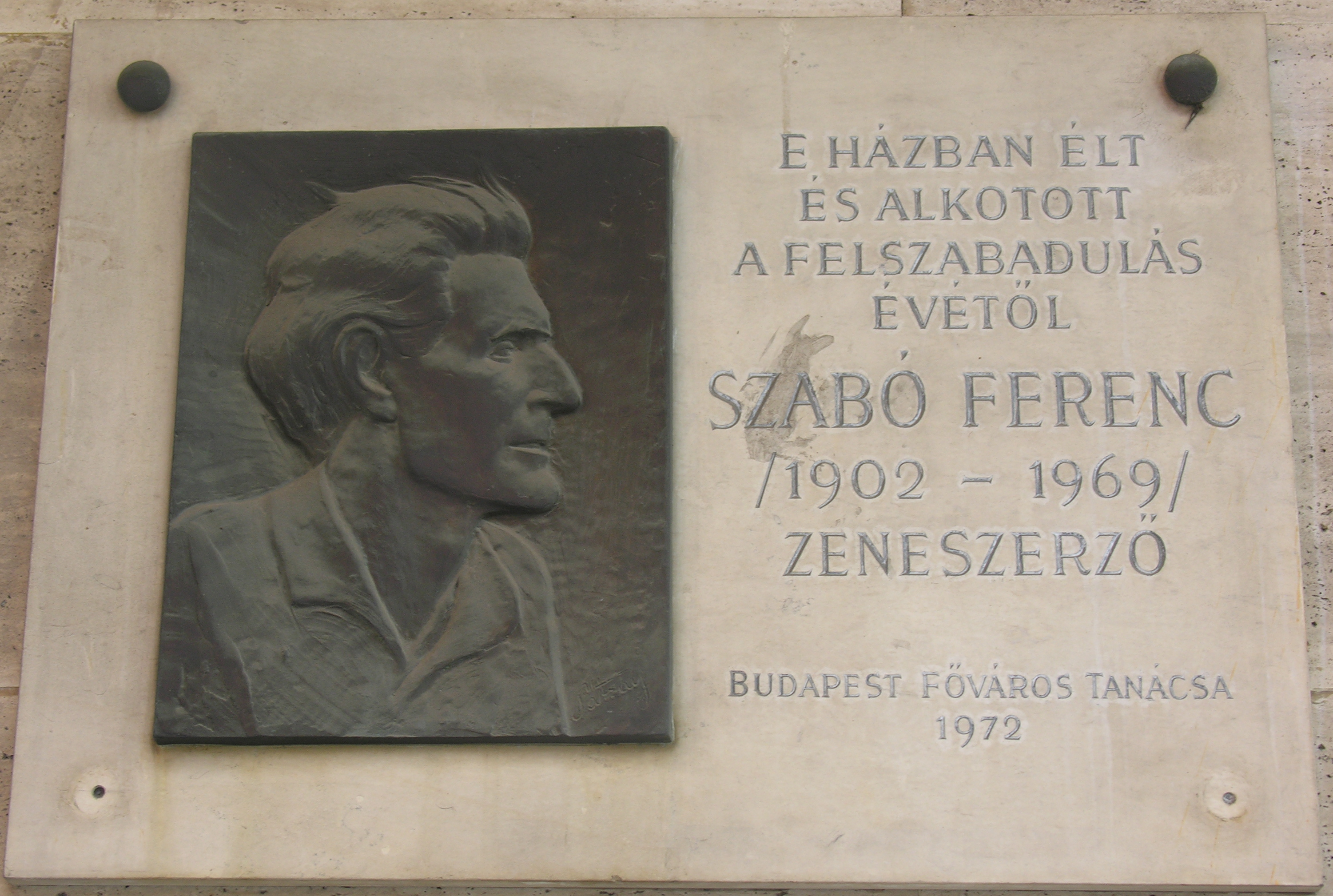 Commemorative plaque of the composer Ferenc Szabó in Budapest District XIII, Hollán Ernő Street No 33